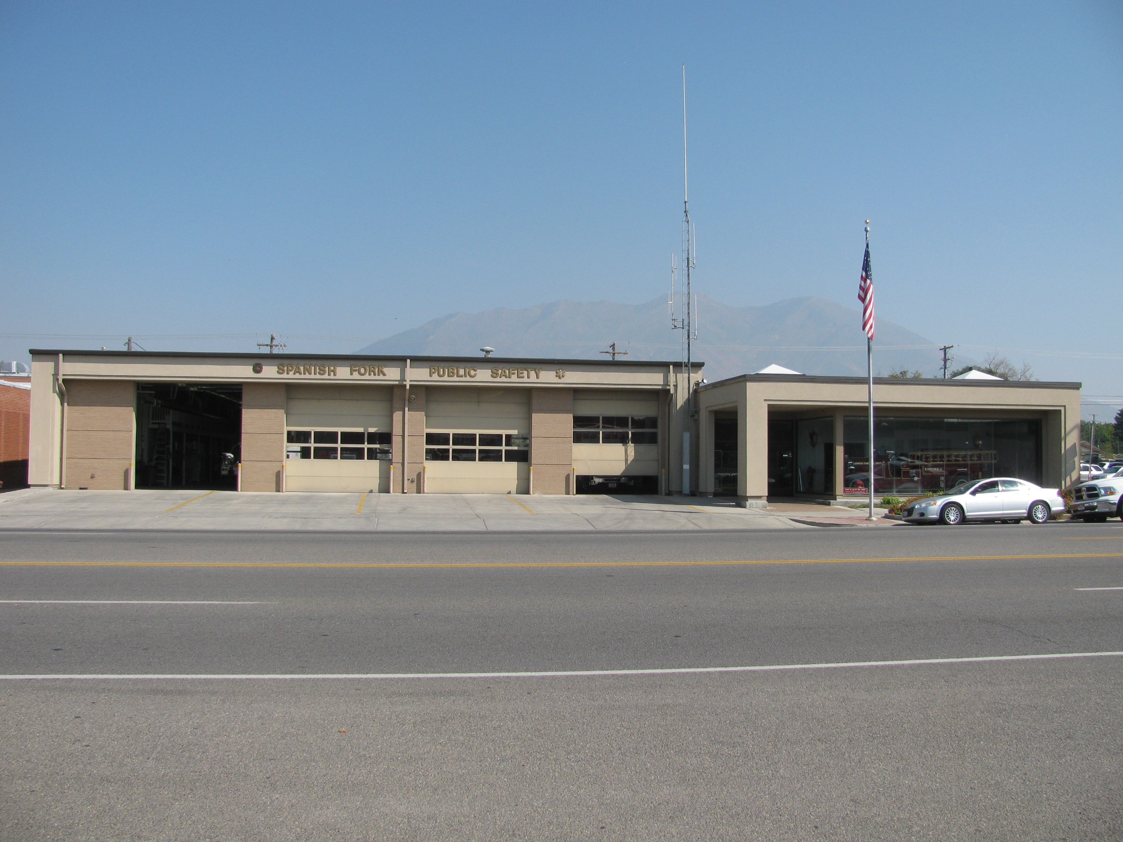 The new Spanish Fork Fire Station in Spanish Fork, Utah, United States. (The former fire station was listed on the National register of Historic Places, but delisted upon its demolition.)